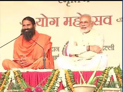 Shri Narendra Modi attended the Yog Mahotsav at Ramlila Maidan in New Delhi